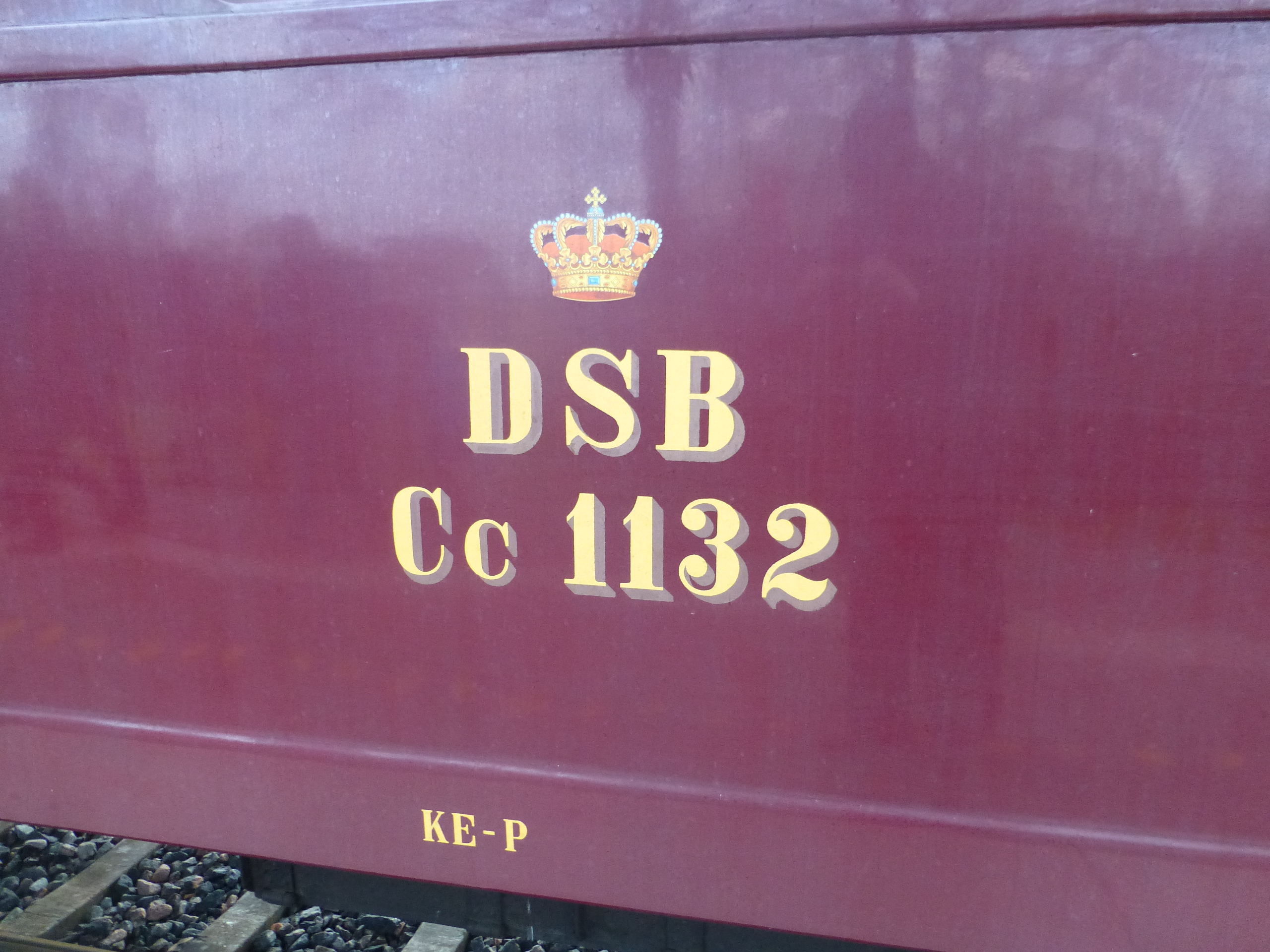 Litra of DSB CC 1132. Hvalsø Station on Nordvestbanen between Roskilde and Kalundborg in Denmark.